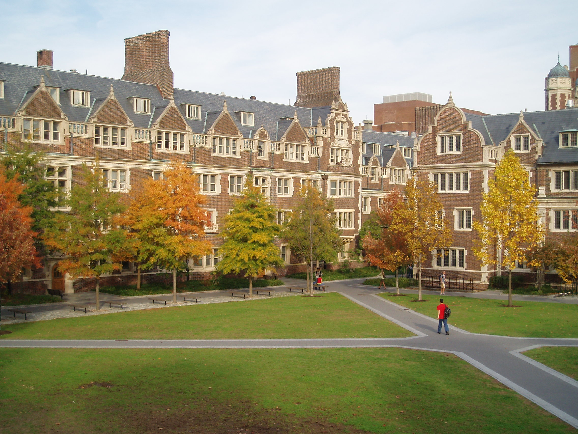 The Quad at UPenn in the fall